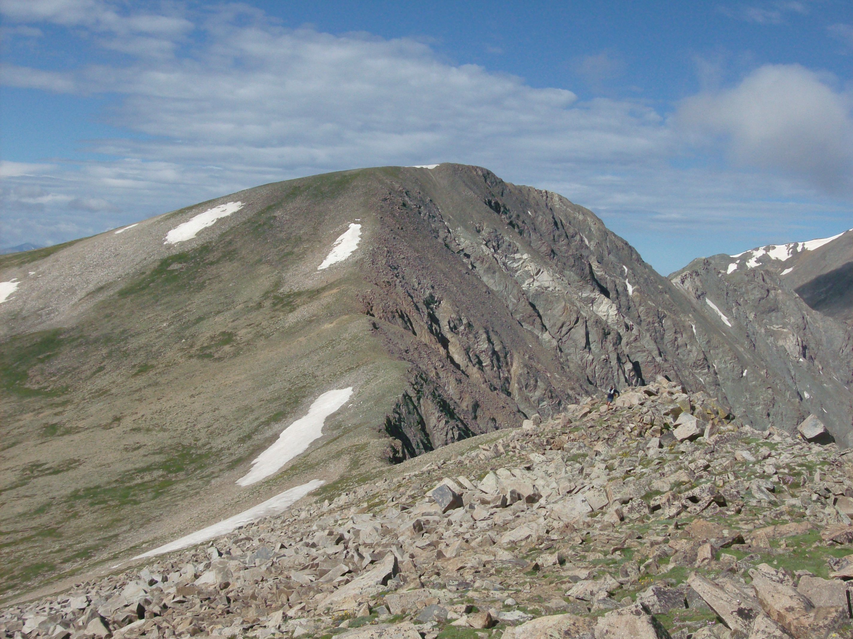 Mount Edwards as seen from the transverse from McClellan Mountain within Clear Creek County, Colorado.